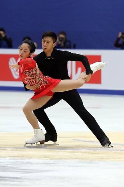 Photos – Cup of China 2017 – Pairs (Wenjing SUI & Cong HAN CHN – Gold Medal)